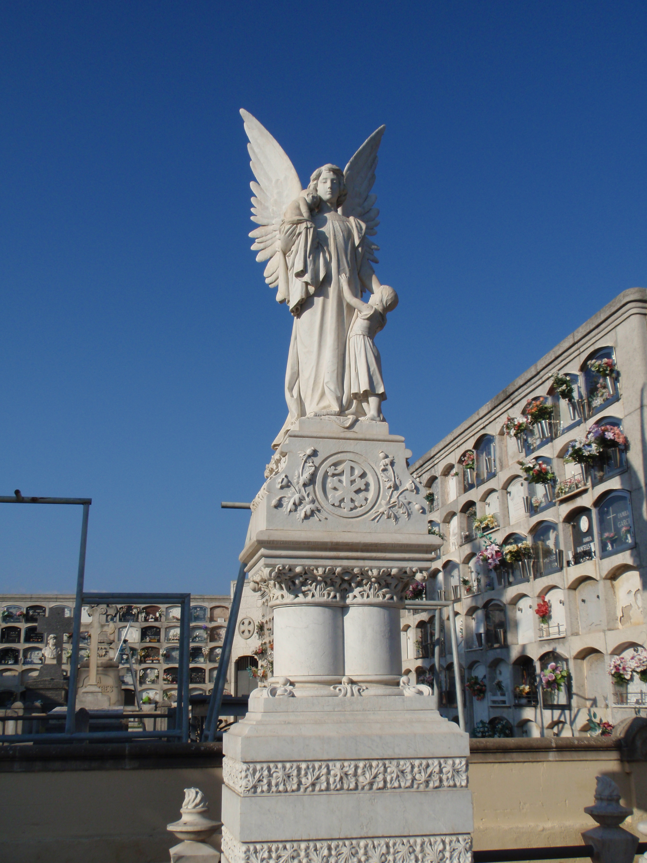 Arenys de Mar cemetery (Catalonia, Spain)